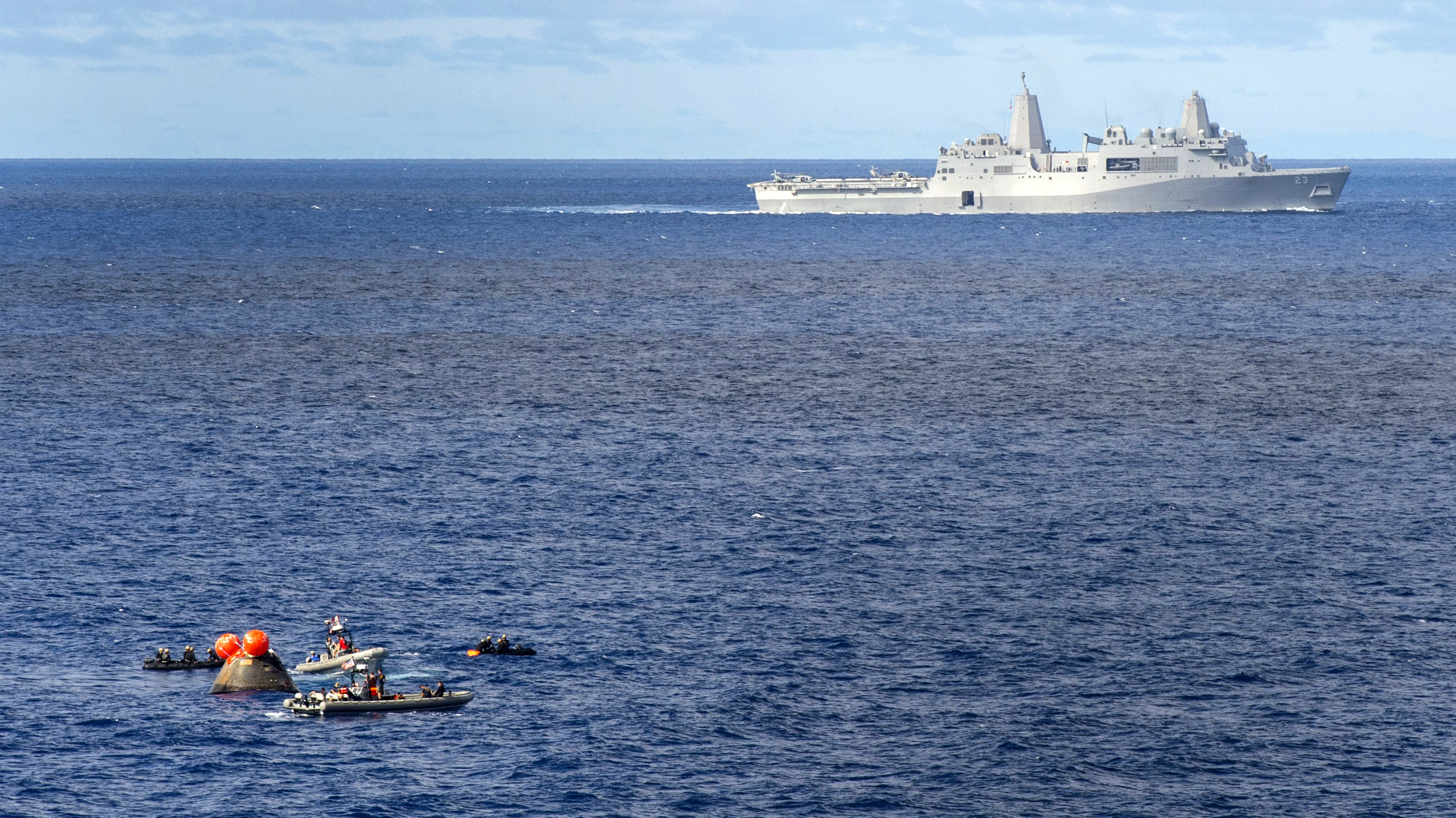 U.S. Navy divers assigned to Explosive Ordnance Disposal Mobile Unit 11 and Fleet Combat Camera Pacific attach a "horse collar" towing device to the National Aeronautics and Space Administration (NASA) Orion Crew Module. The amphibious transport dock ship USS Anchorage (LPD-23) was supporting the first exploration test flight for the NASA Orion program. EFT-1 was the fifth at sea testing of the Orion Crew Module using a Navy well deck recovery method.